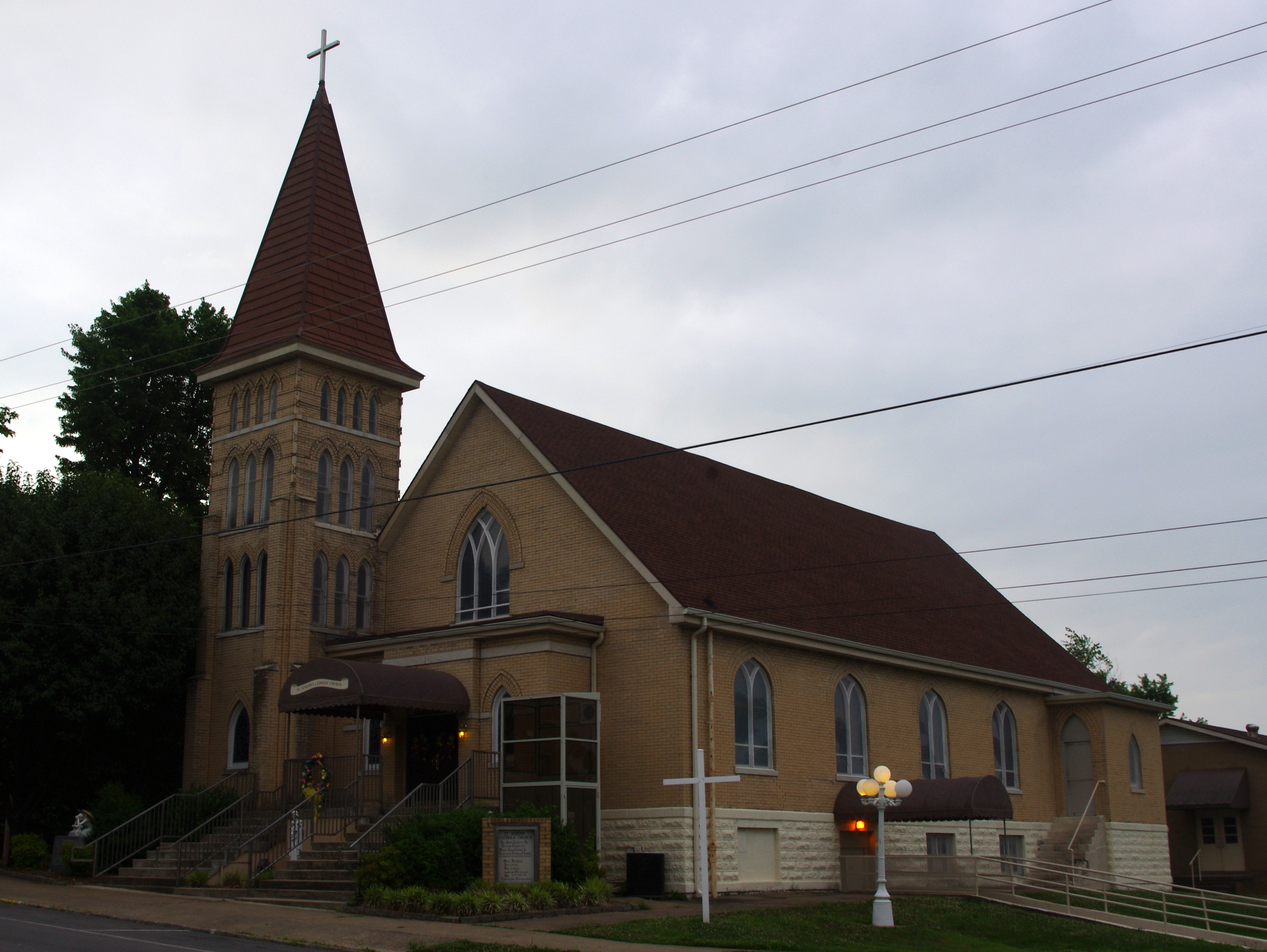 Saint Joseph's Catholic Church (Central City, Kentucky) - exterior 2